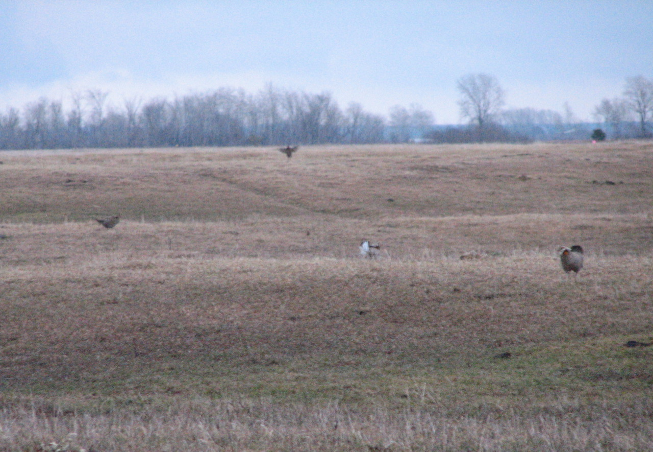 Apparently the males start booming for about a month before the females come in. We are pretty sure we only had males today. We couldn't see the males come in, it was too dark, but we could hear them. The booming sounded to us something like owls hooting. They also cackle and cluck like chickens.